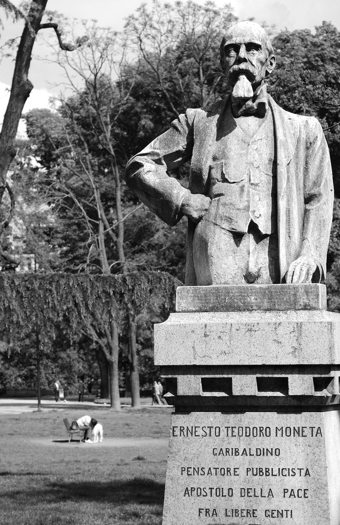 Tullio Brianzi (19th-20th century), Monument to the journalist and Nobel Peace Prize winner, Ernesto Teodoro Moneta (1924) in the "Giardini pubblici di Porta Venezia" gardens (now "Giardini Indro Montanelli"), in Milan, Italy. The monument was removed during the Fascist period, and put back in 1945.